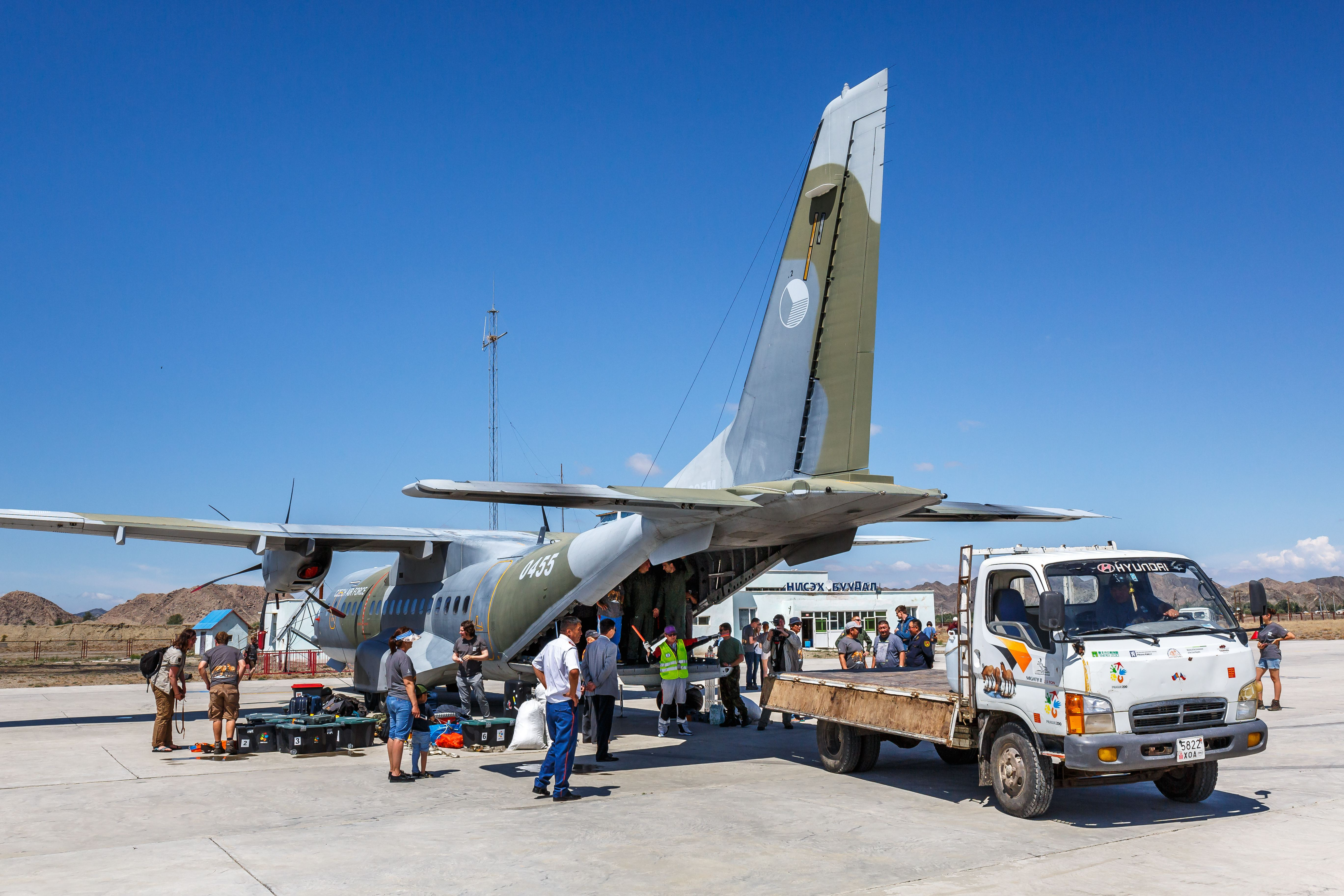 Return of the Wild Horses 2018, Bulgan Airport